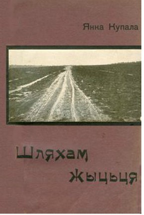 Yanka Kupala "Shlyham zhyccya"